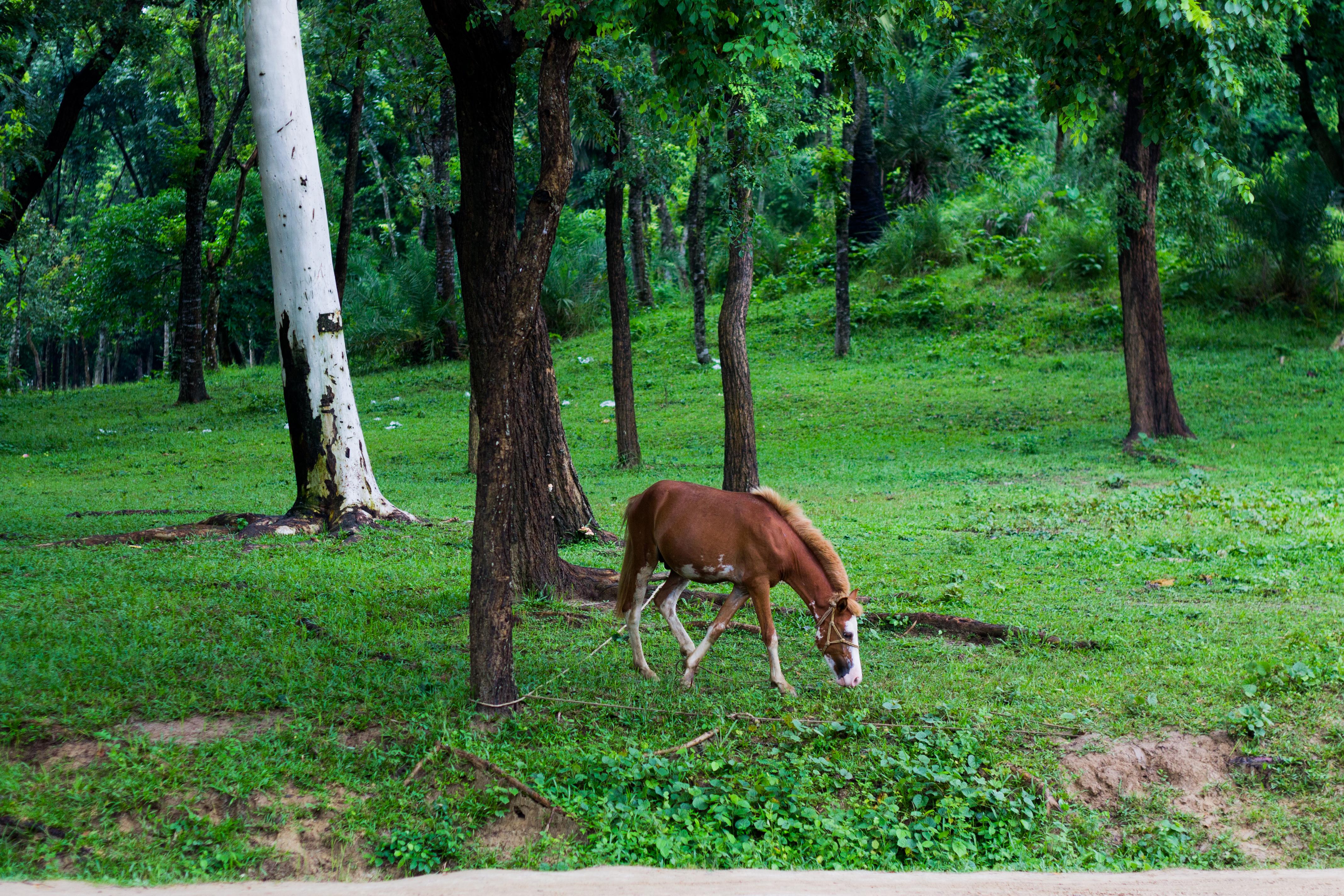 A horse in Ramsagar Nation park